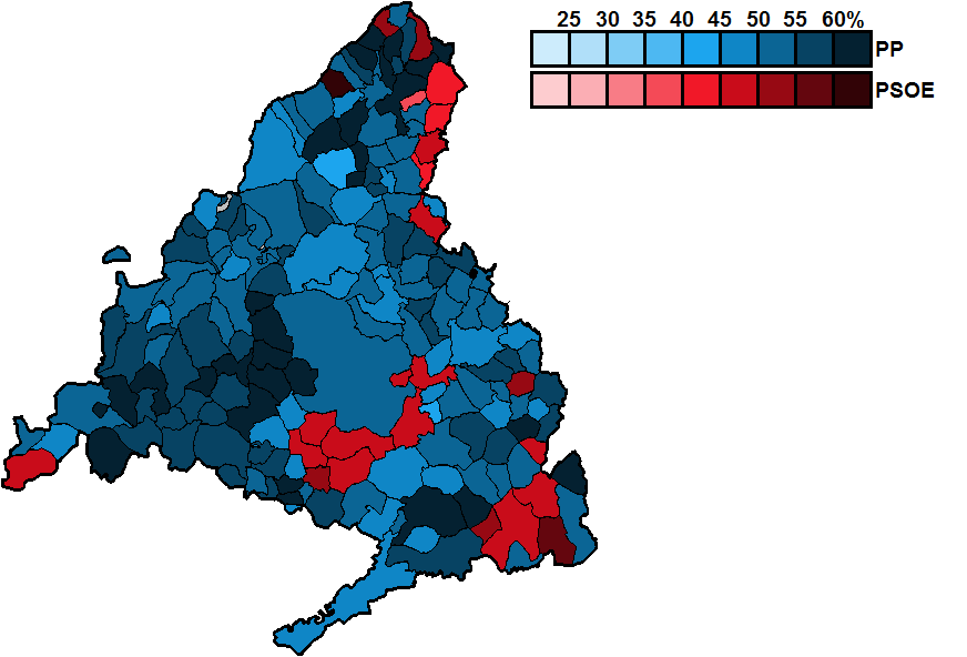 Most-voted party in Madrid municipalities, showing vote share obtained, in the Spanish general election, 2008.